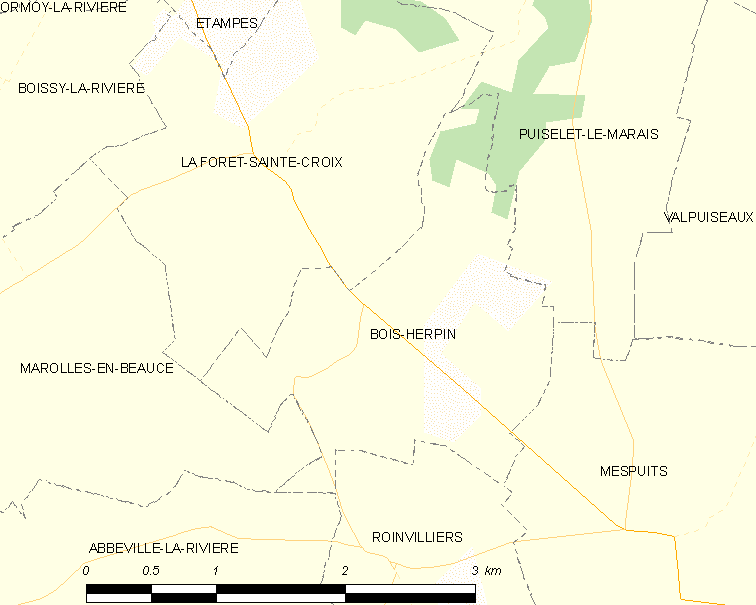 Map of French municipality Bois-Herpin